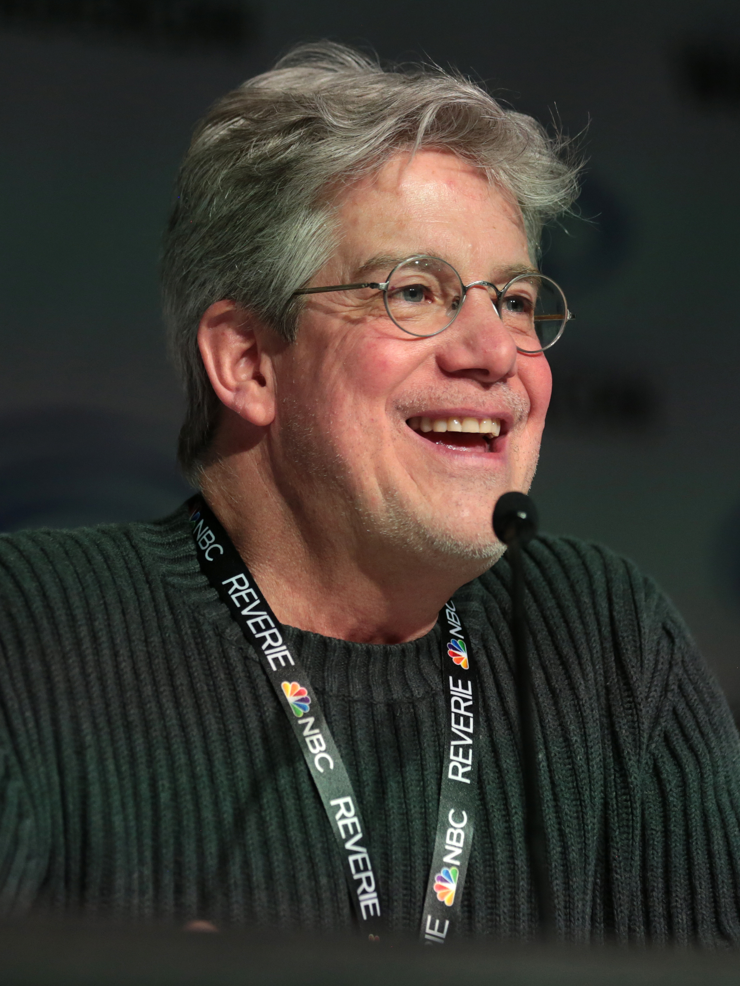 Townsend Coleman speaking at the 2018 WonderCon in Anaheim, California.